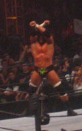 D-Generation X = Triple H and Shawn Michaels